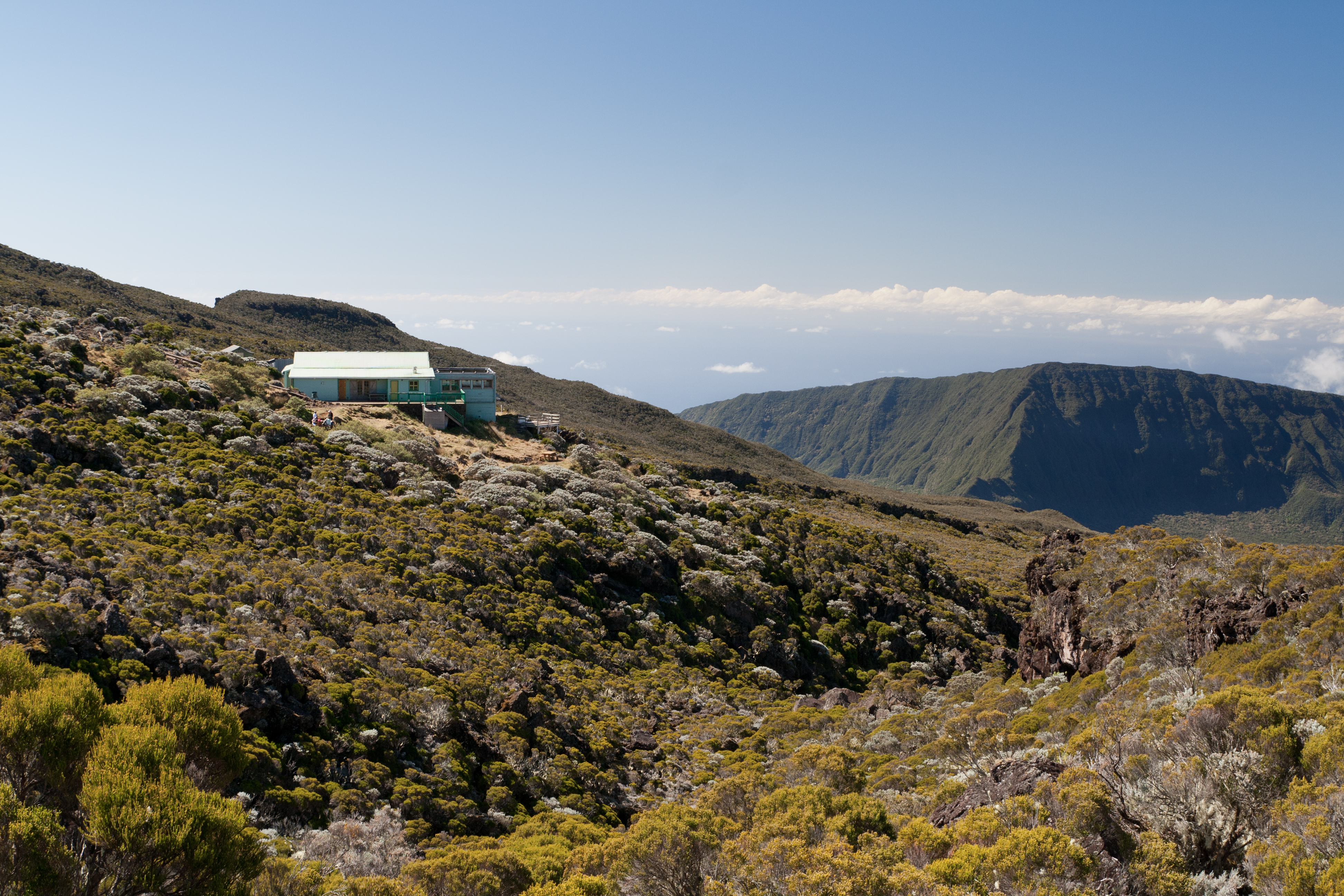 Gîte du Piton des Neiges (also: gîte de la caverne Dufour) is a mountain hut en route to Piton des Neiges, the highest peak in Réunion Island (3070,5 m)